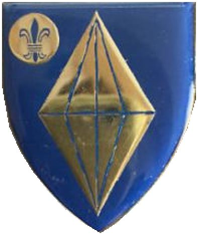 SADF era Kimberly Commando Insignia